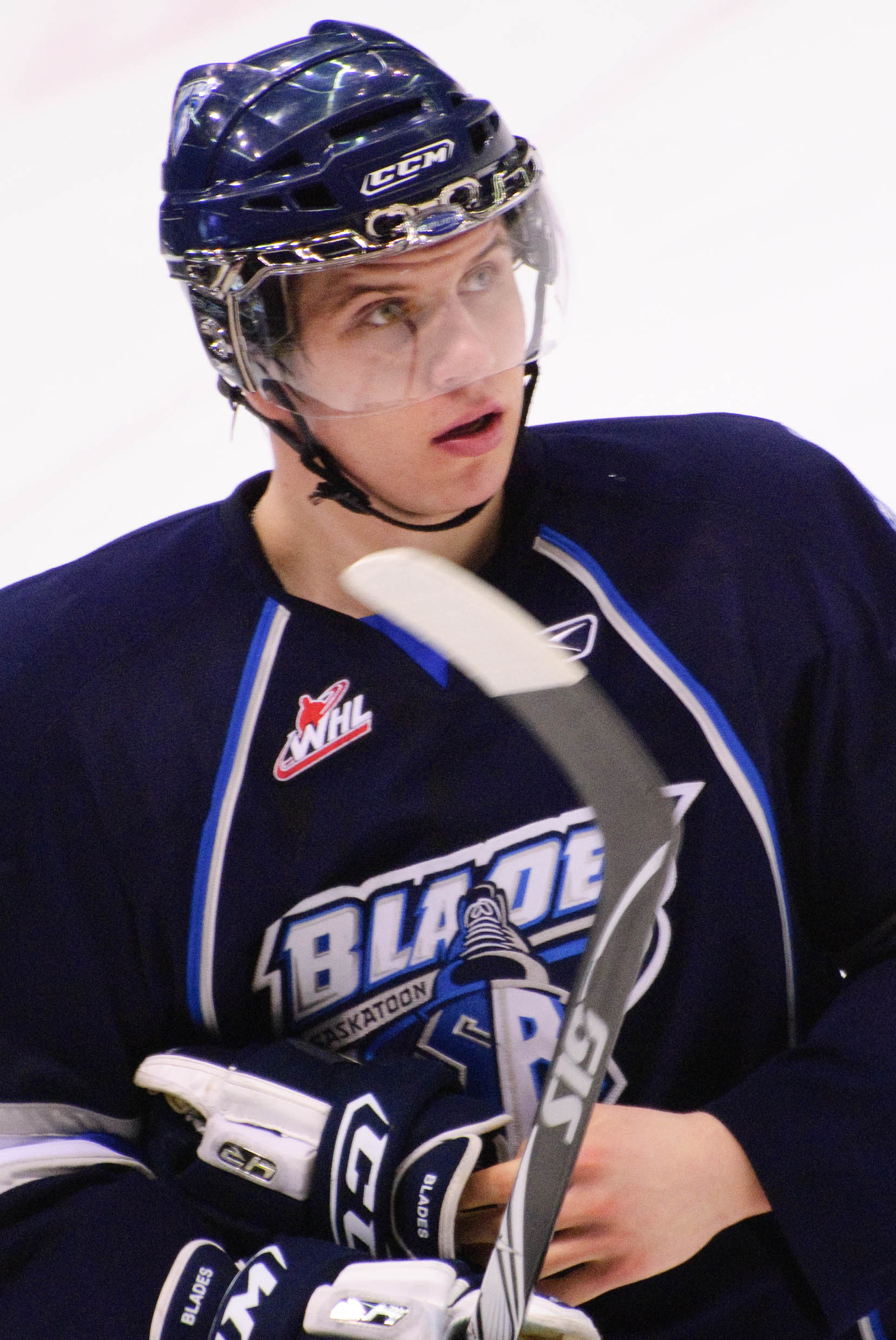 Brayden Schenn of the Saskatoon Blades during a Western Hockey League game.